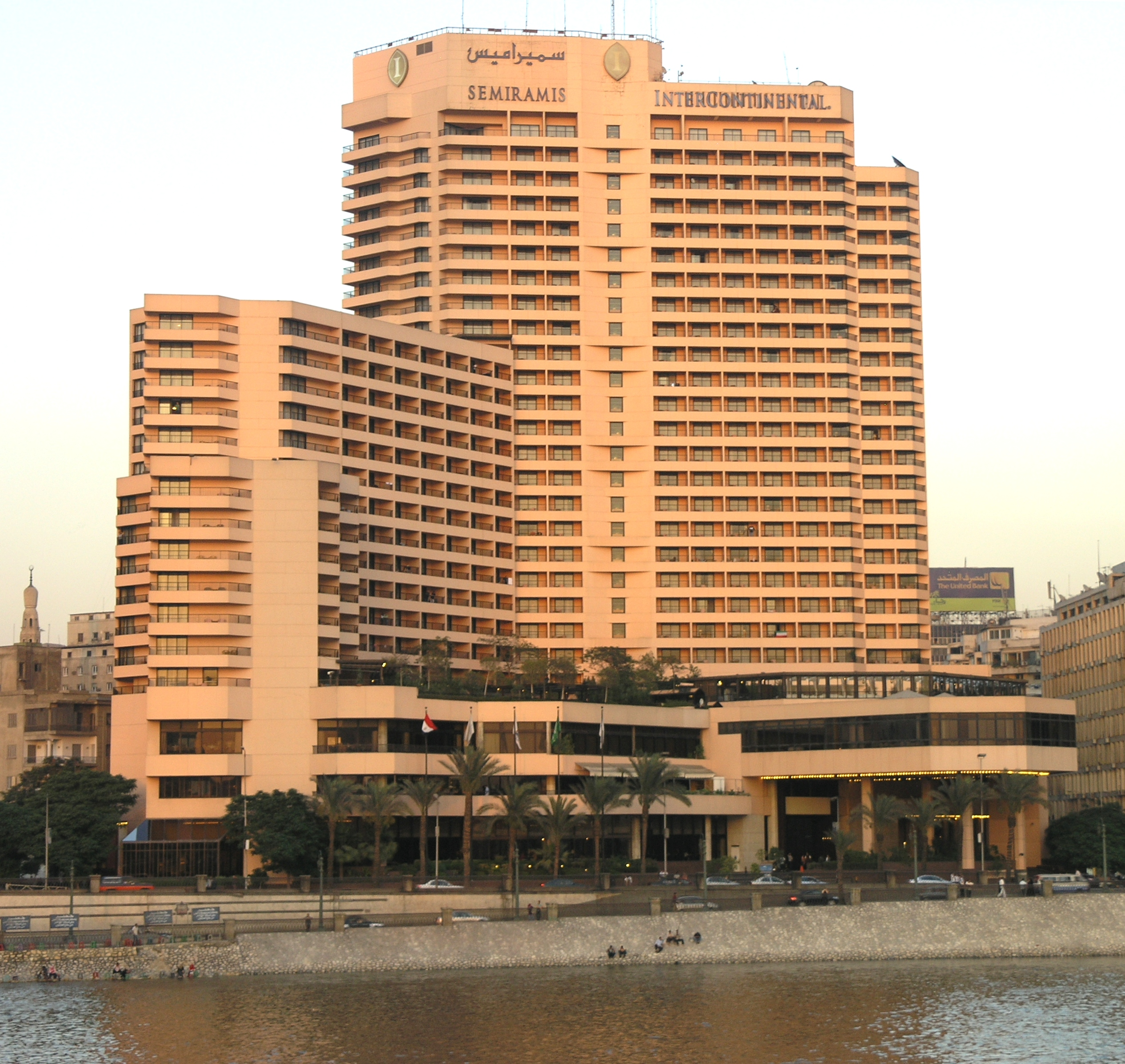 Cairo - Garden City - Semiramis InterContinental Cairo